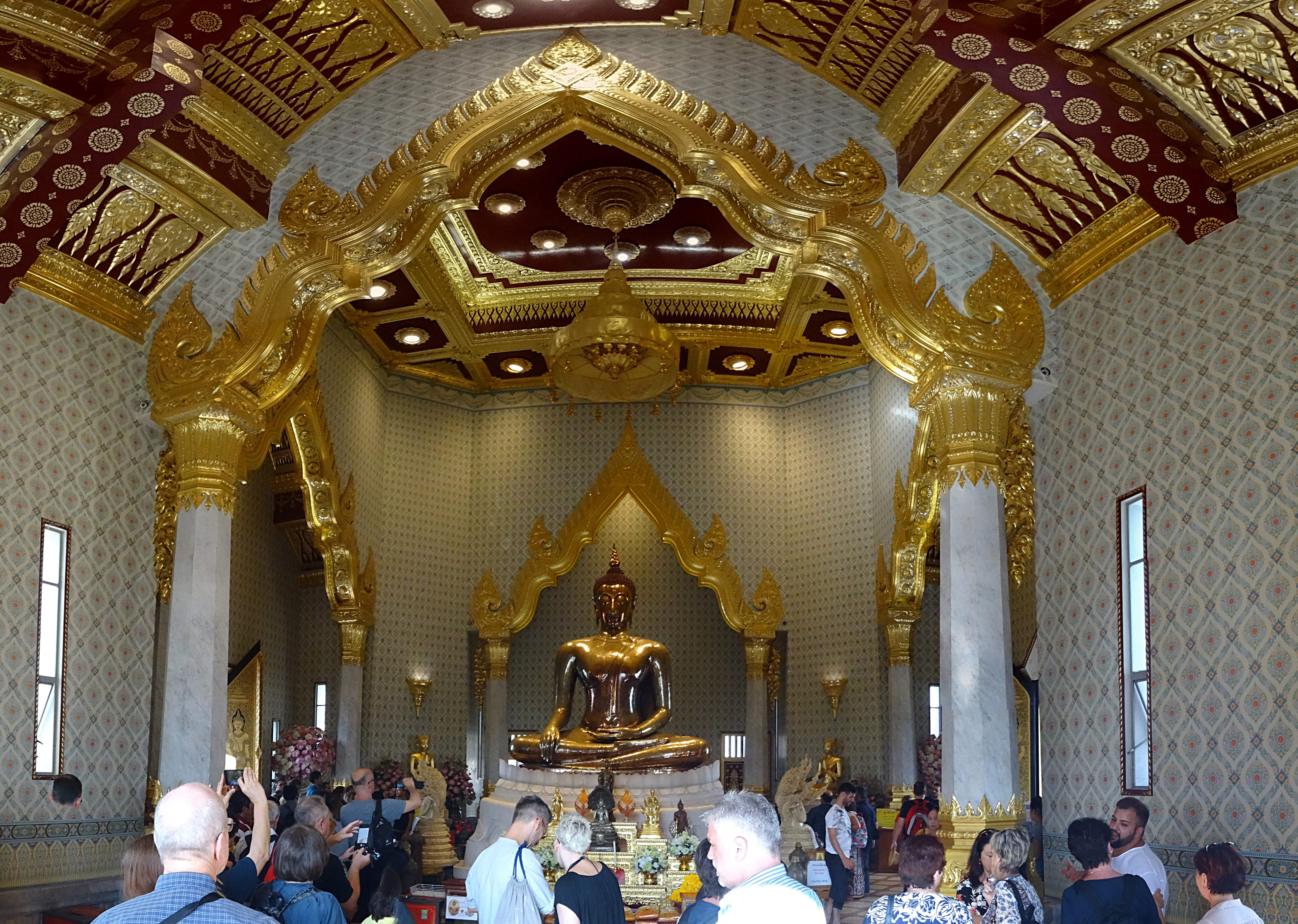 Golden Buddha statue in the temple of Wat Traimit, Bangkok